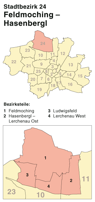 Boroughs of Munich map series